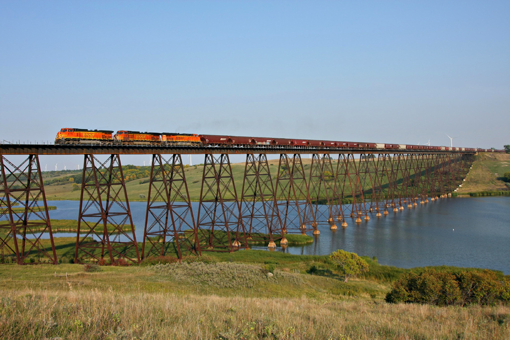 A Williston, ND bound empty shuttle sails over the Sheyenne River on this huge trestle near Karnak, ND. GN built this bridge in 1912 for the Surrey Cut-Off.